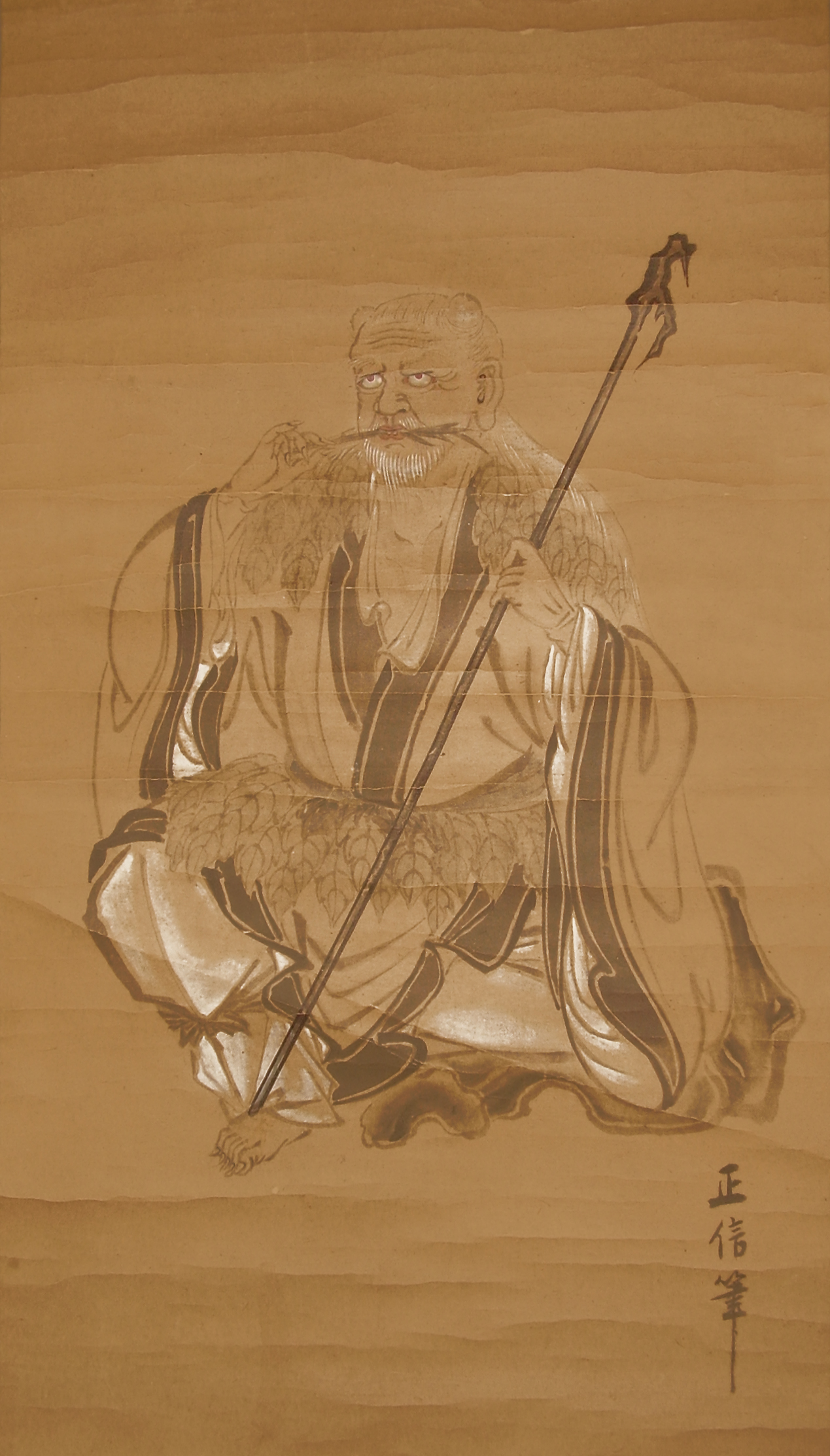 Shinno (Shennong); typical "iconic" pose; inscribed (untranslated - help needed!), artist not identified; 19th century; Japanese; private collection, fam. Wittig et cie.